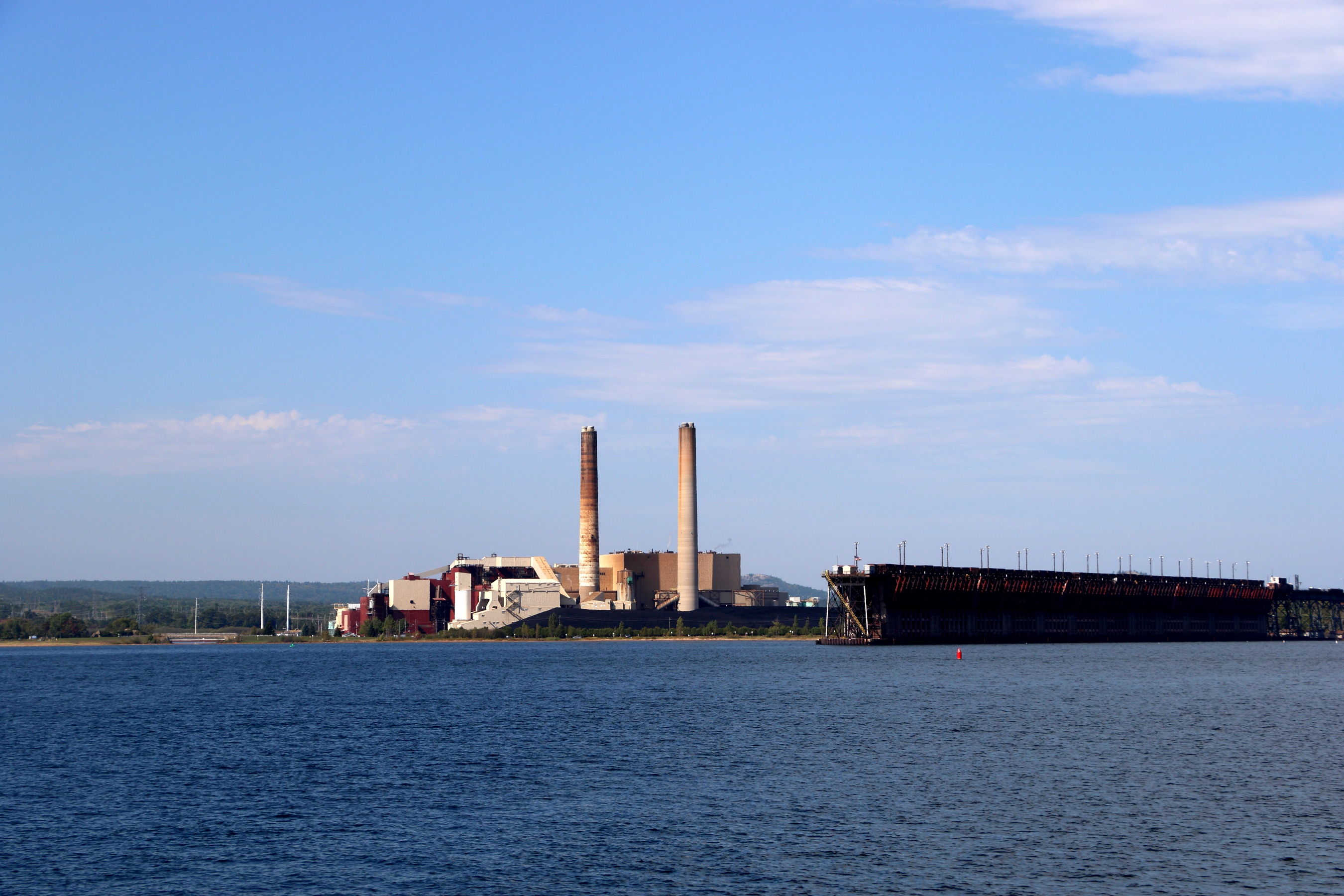 Presque Isle Power Plant, coal-fired power plant, serving Marquette, Michigan